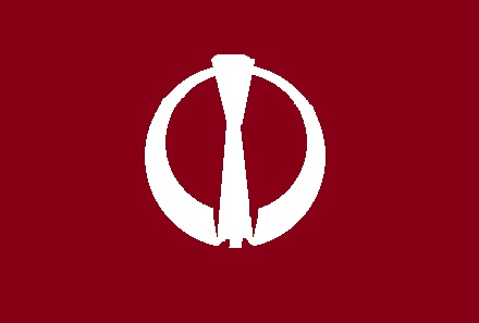 Flag of Furudono Fukushima